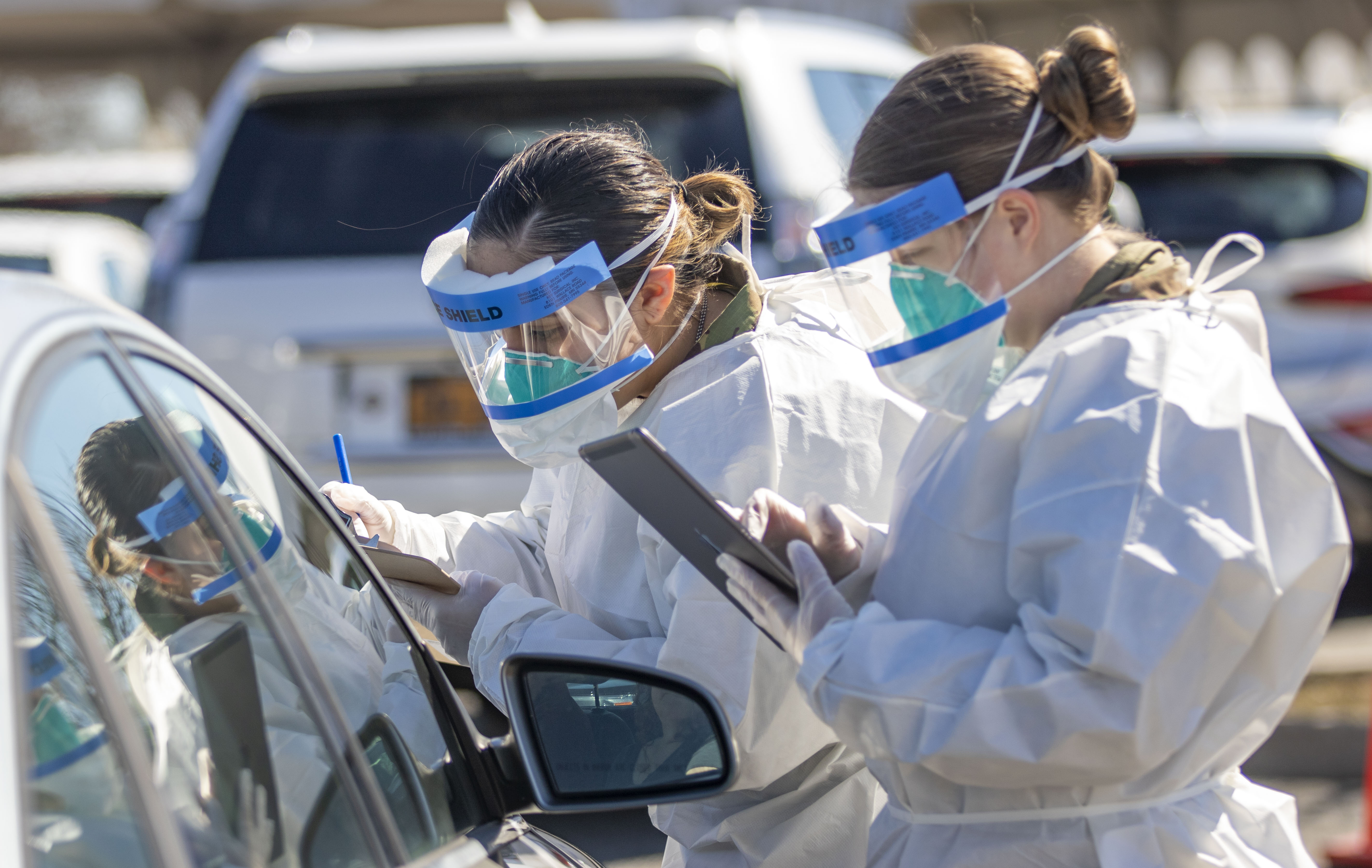 U.S. Army Spc. Reagan Long, a horizontal construction engineer assigned to the 827th Engineer Company, 204th Engineering Battalion, 53rd Troop Command, New York Army National Guard, alongside Pfc. Naomi Velez, a horizontal construction engineer assigned to the 152nd Engineer Support Company, 42nd Infantry Division, register people at a COVID-19 Mobile Testing Center in Glenn Island Park, New Rochelle, Mar. 14, 2020. Members of the Army and Air National Guard from across several states have been activated under Operation COVID-19 to support federal, state and local efforts. (U.S. Army National Guard photo by Sgt. Amouris Coss)中文（中国大陆）: 美國陸軍特種部隊 裡根·朗（Reagan Long），是水平部隊的建築工程師，與Pfc一起被分配給第827連公司，第204工兵營，第53部隊指揮部，紐約陸軍國民警衛隊。 2020年3月14日，分配給第42步兵師第152工程師支持公司的第152工程支持公司的水平建築工程師Naomi Velez在新羅謝爾格倫島公園的COVID-19移動測試中心進行人員註冊。陸軍和空軍國民 COVID-19行動激活了來自多個州的警衛，以支持聯邦，州和地方的努力。 （美國陸軍國民警衛隊由Amouris Coss軍官攝）